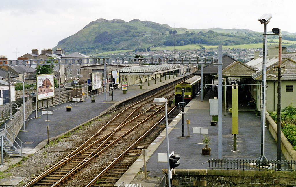 Bray Station. View southwards, towards Greystones, Wicklow, Arklow, Wexford and Rosslare; ex-Dublin & South Eastern line, now DART to Greystones. Bray Head dominates beyond. (See also SU7108 : Pavement in Billy's Copse .